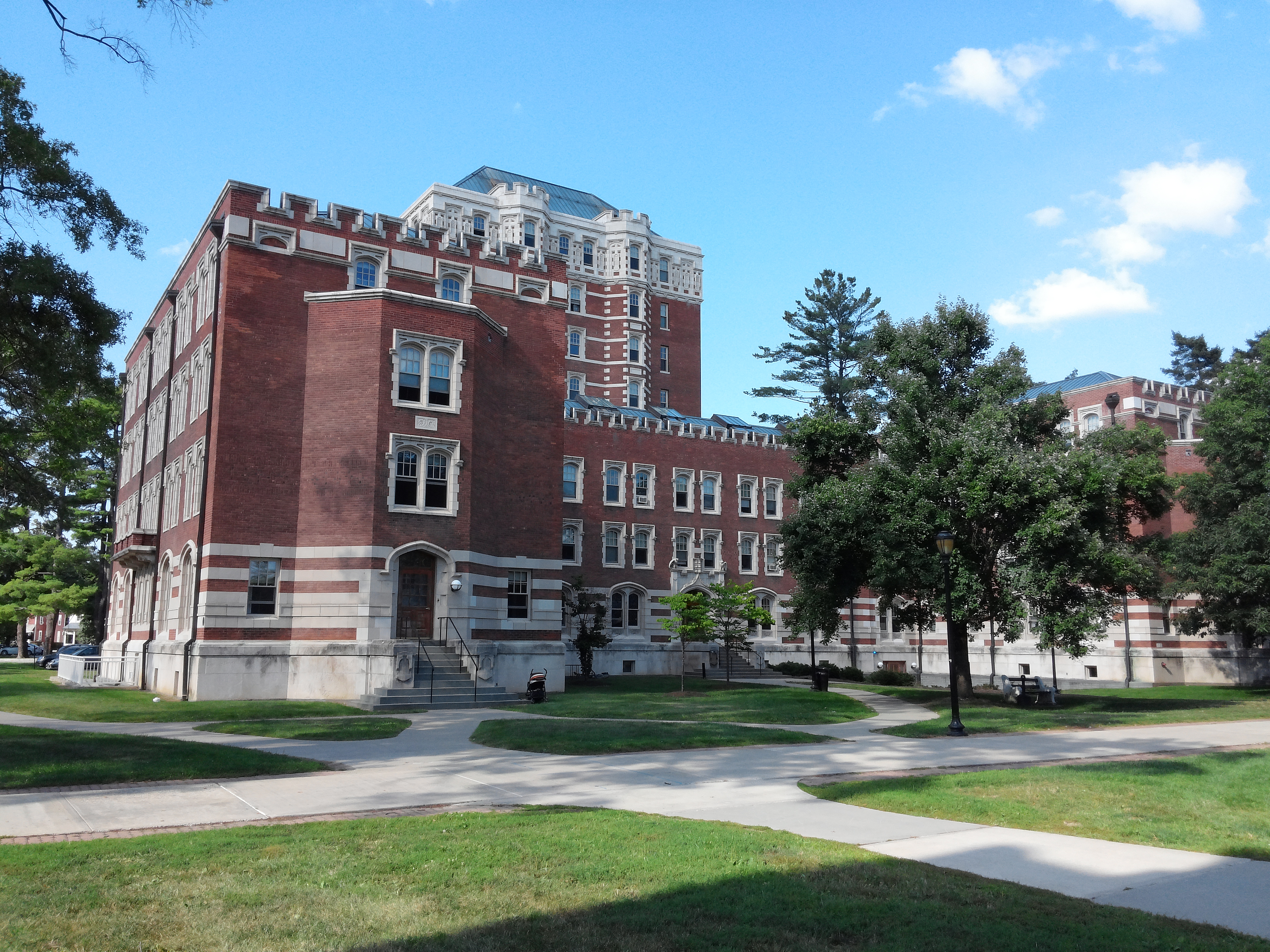 Jewett House, one of the dormitories at Vassar College. Pictured from the quad-facing side.